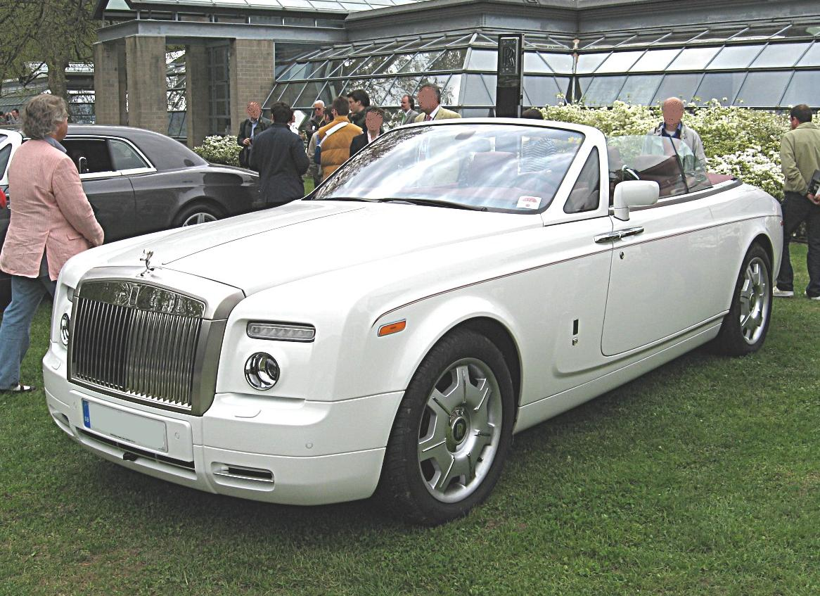 Subject: Rolls-Royce Phantom Drop Head Coupé Author:Luc106 Date:April 27th, 2008 Event:Concorso d’Eleganza”Villa d’Este” 2008 Place/Country: Cernobbio (CO), Italy I release all rights in the public domain.